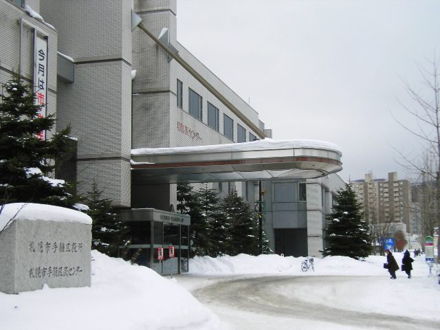 Teine Ward Office of Sapporo City. Sapporo, Hokkaido prefecture, Japan.